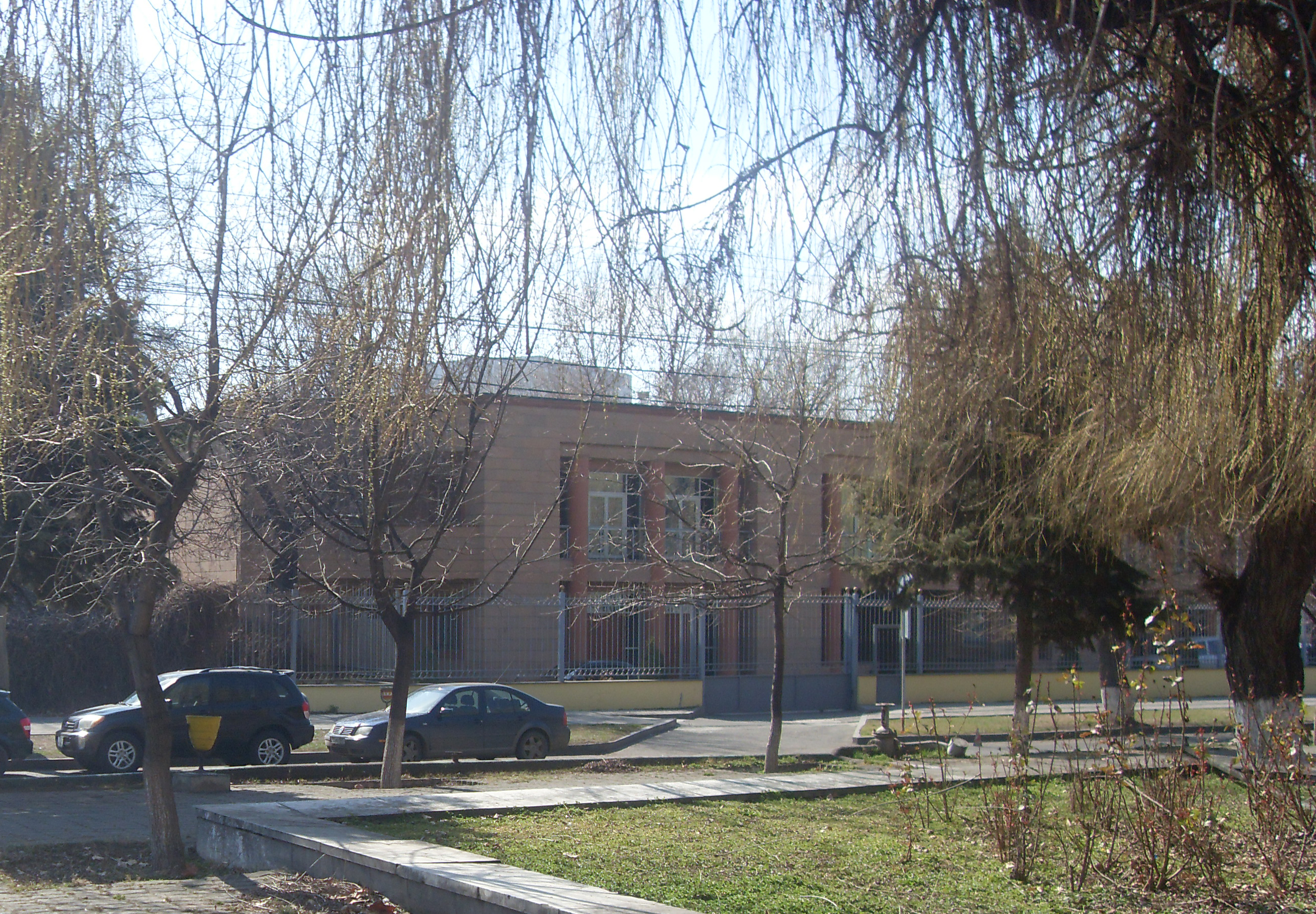 Երևան, Իտալիայի փողոց